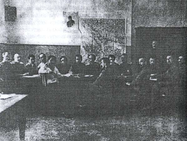 The members of Ukrainian General Military Command at a meeting